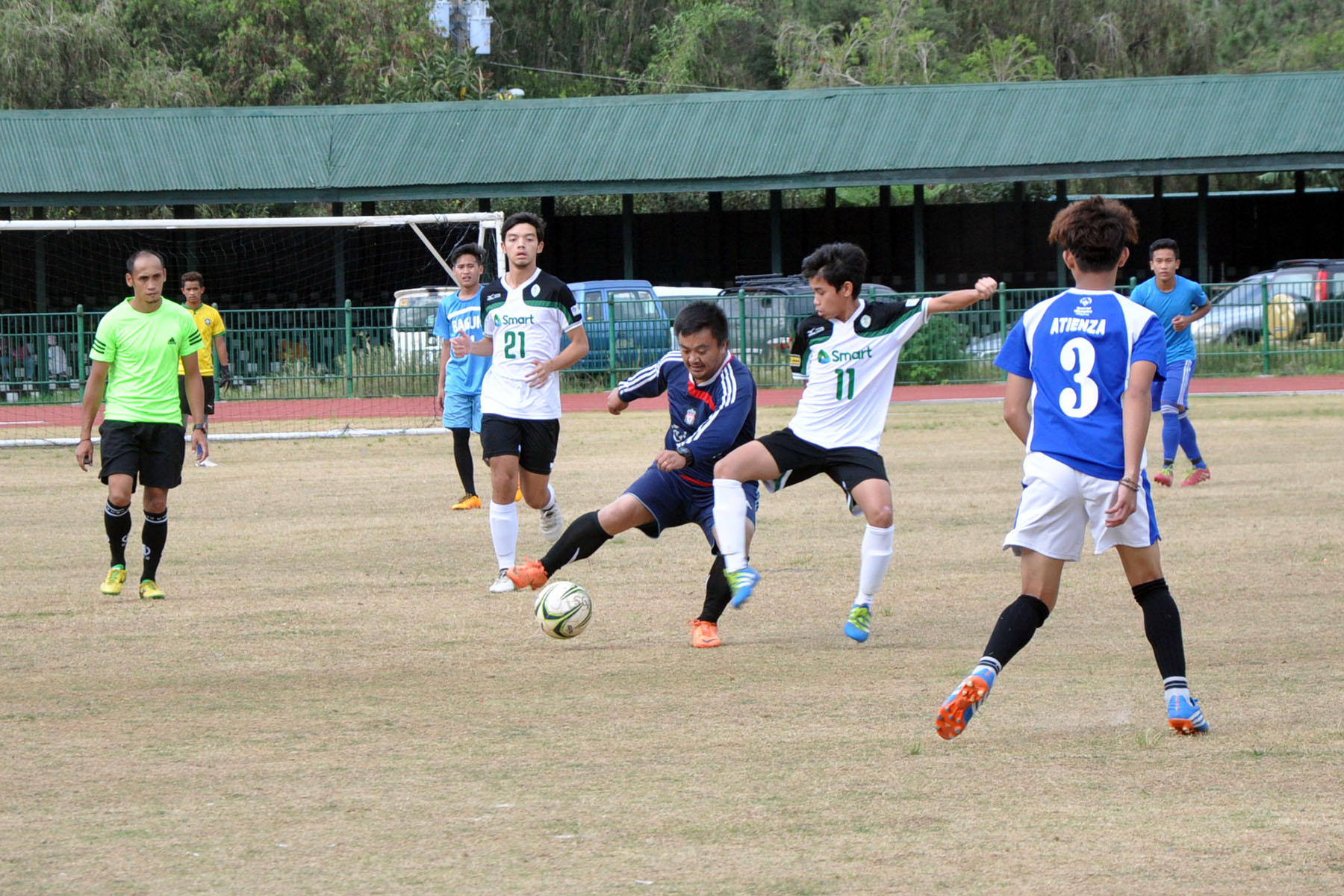 Baguio citizens practicing football along with members of the La Salle Greenhills Juniors Squad who were having a training camp as preparation for the UAAP tournament.